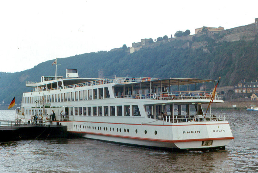 Passengership Rhein (since 1985: Wappen von Köln) in 1973 in Koblenz.